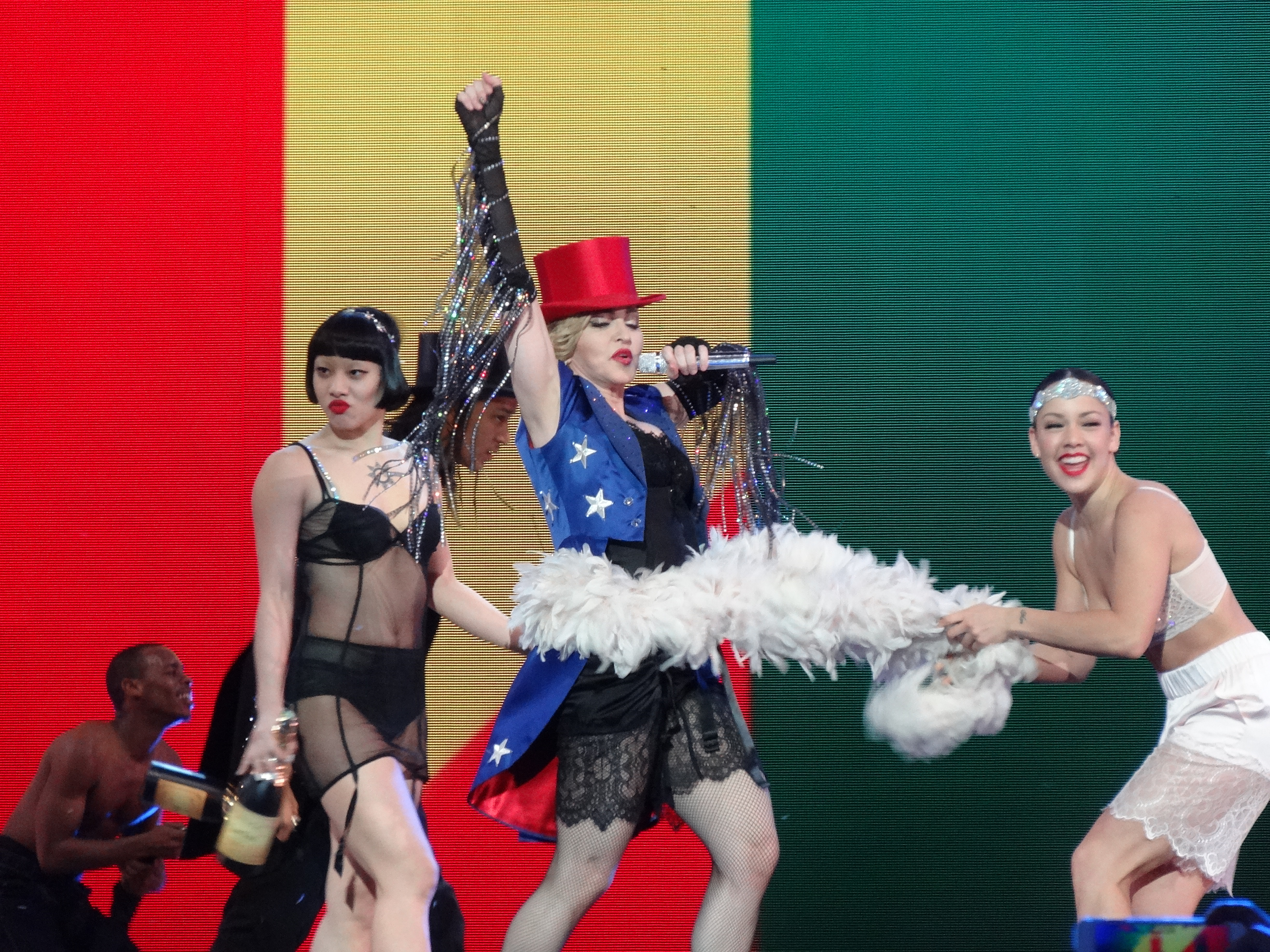 Live in Taiwan Rebel Heart Tour